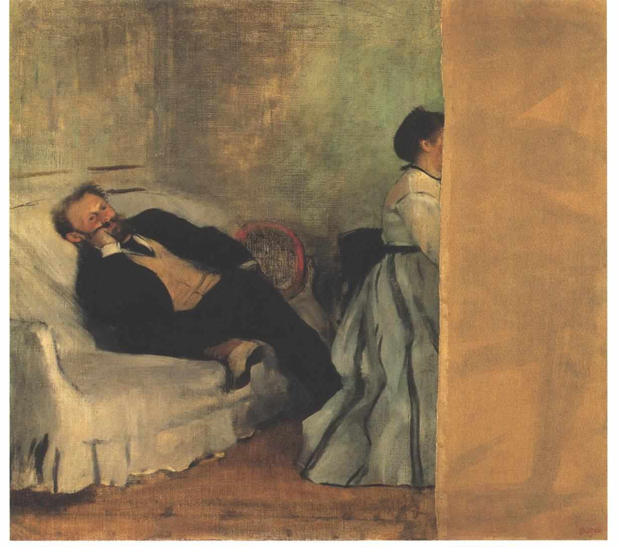 mr and Ms Manet